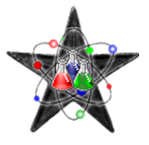 Chemistry barnstar